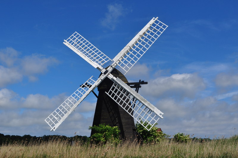 Herringfleet Smock Drainage Wind pump, near to Herringfleet, Suffolk, Great Britain. A view from the front.